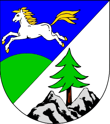 Coat of arms of village Pohledec, part of Czech city Nové Město na Moravě